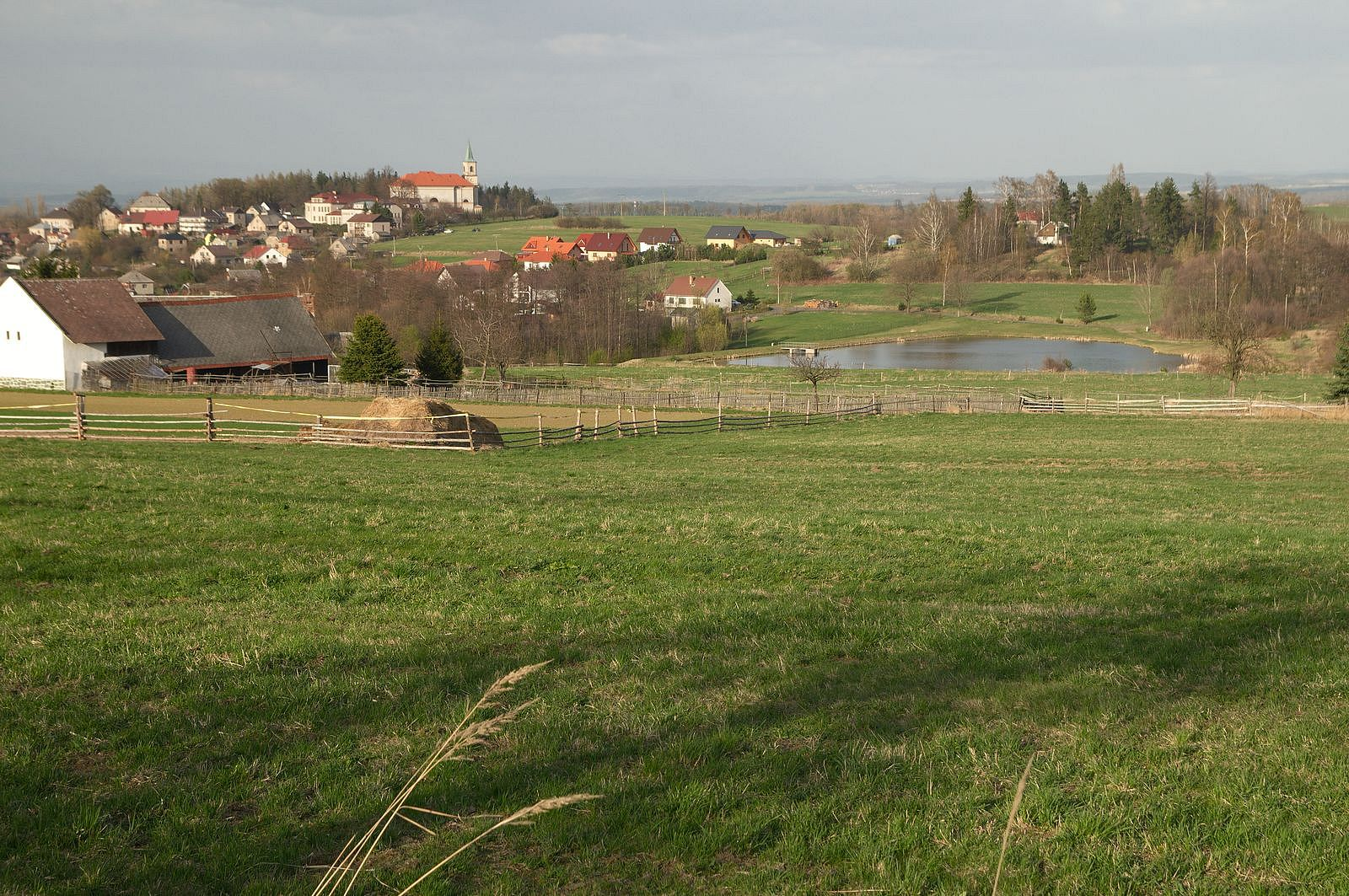 village Včelákov